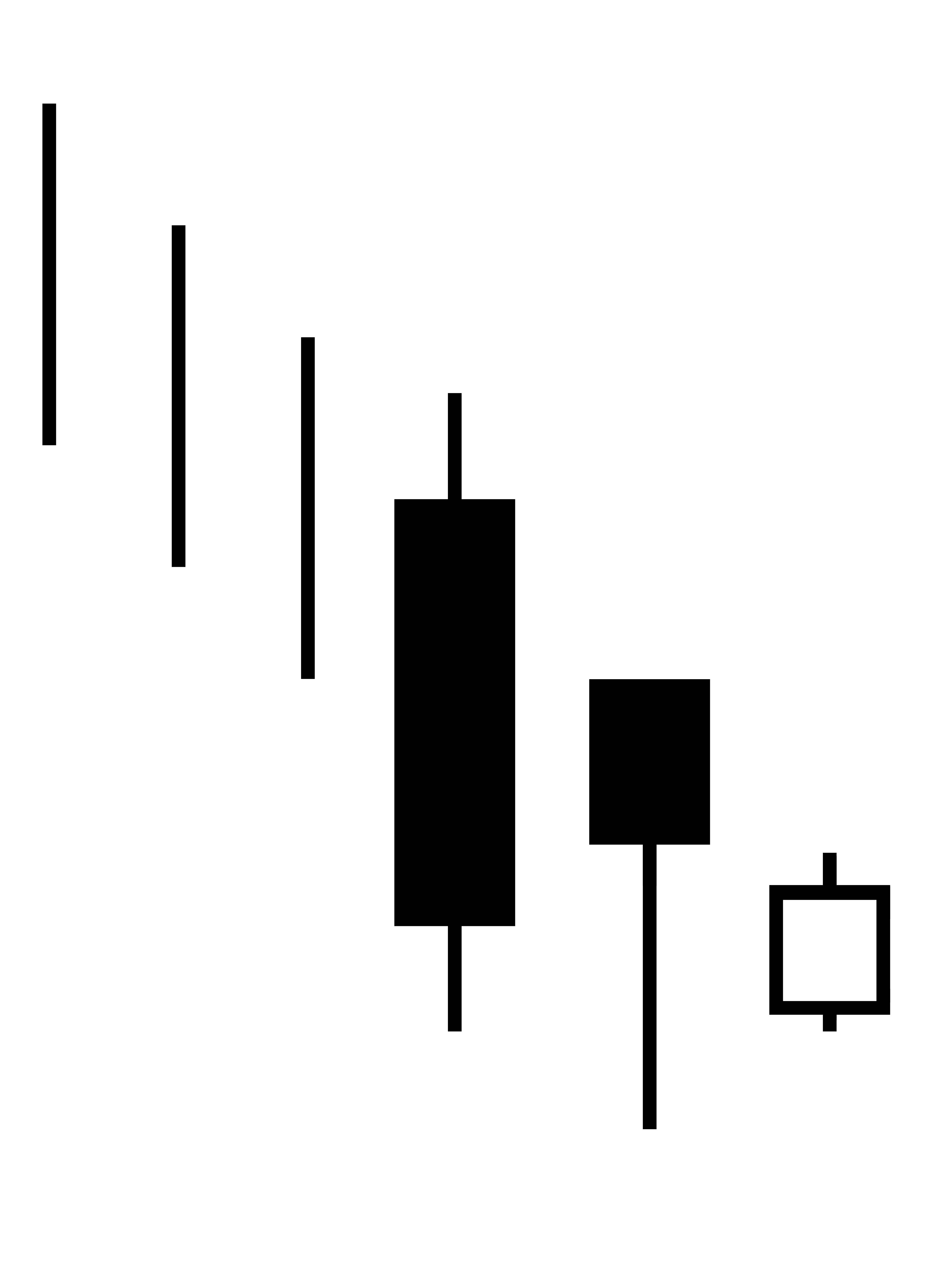 Bullish Unique Three River Bottom